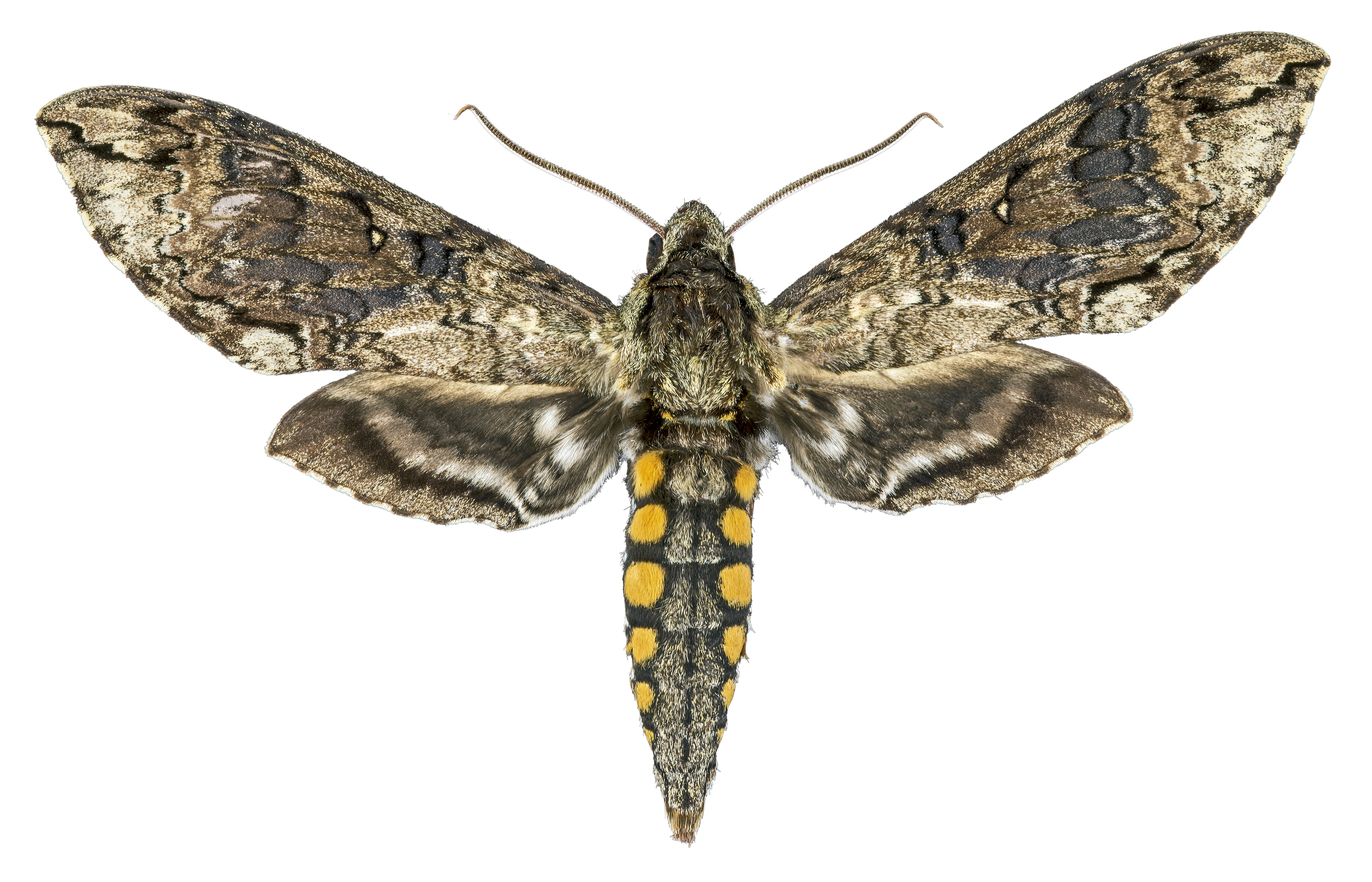 Manduca brasiliensis - Dorsal side Collection of the Mathematician Laurent Schwartz